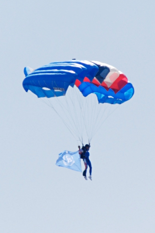 Paratrooper with the UN flag above the Place de la Concorde, end of the Bastille Day 2008 military parade on the Champs-Élysées, Paris.